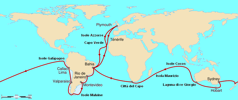 Italian map of the voyage of the Beagle, a circumnavigation travel with Charles Darwin.